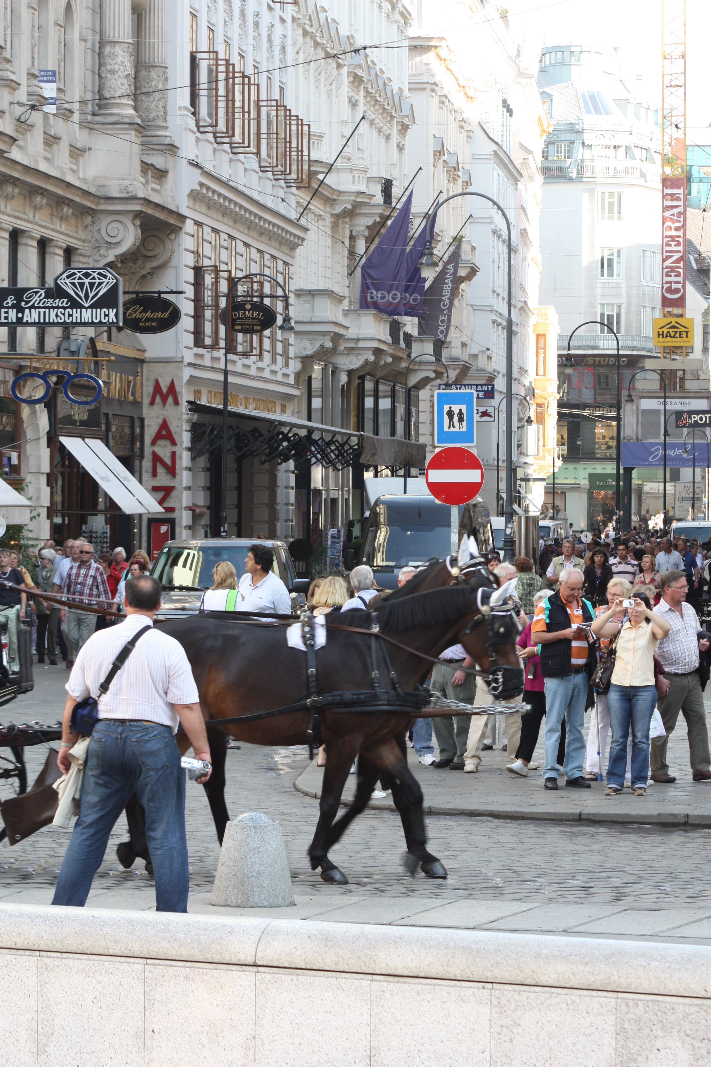 Kohlmarkt, Vienna. View from Michaelerplatz towards Graben.